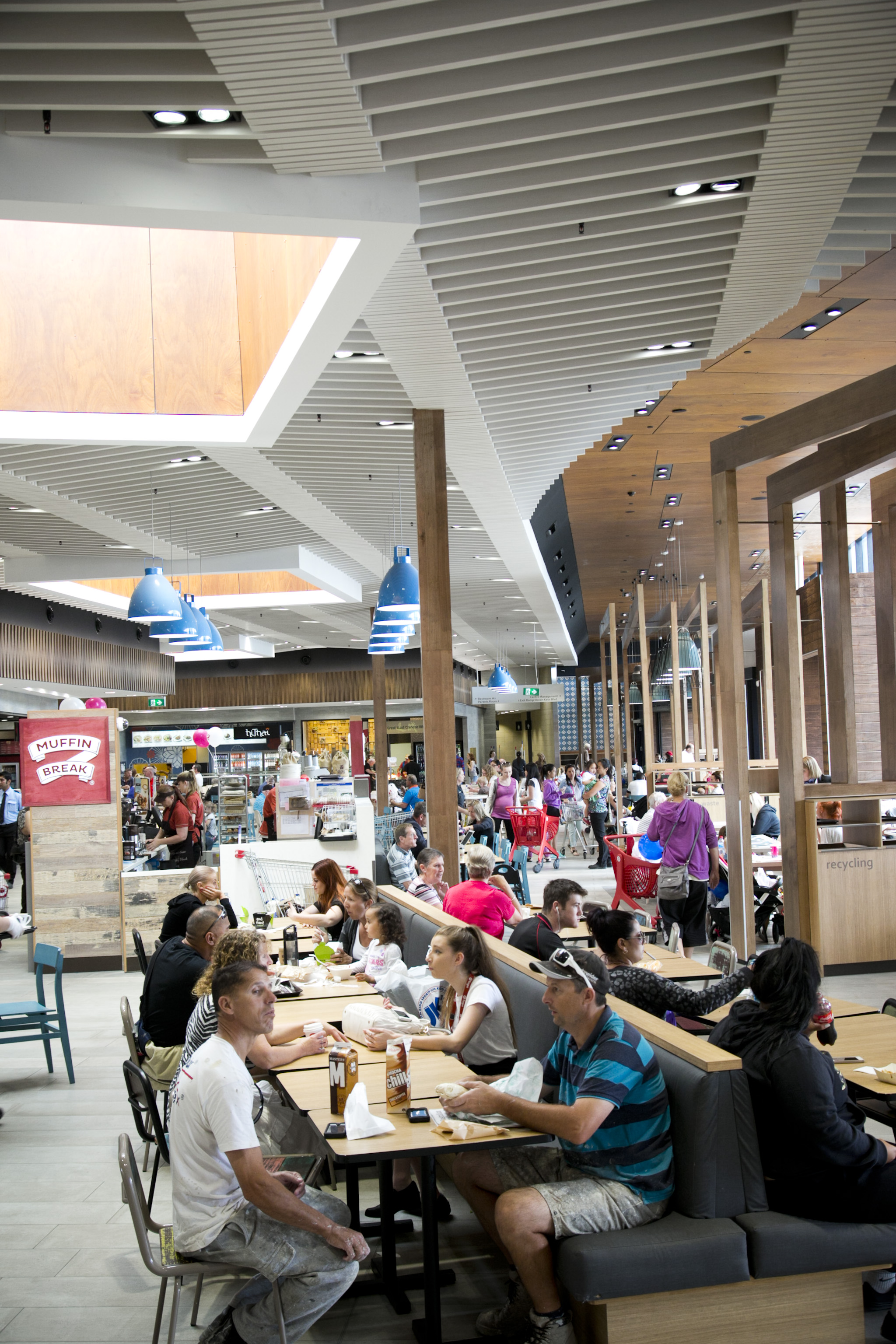 Ocean Keys Shopping Centre dining precinct